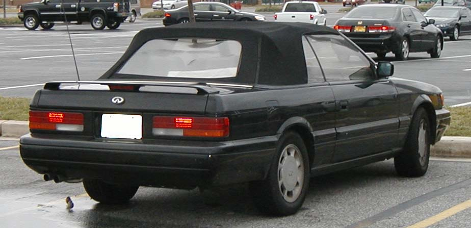 1990-1992 Infiniti M30 convertible photographed in USA.